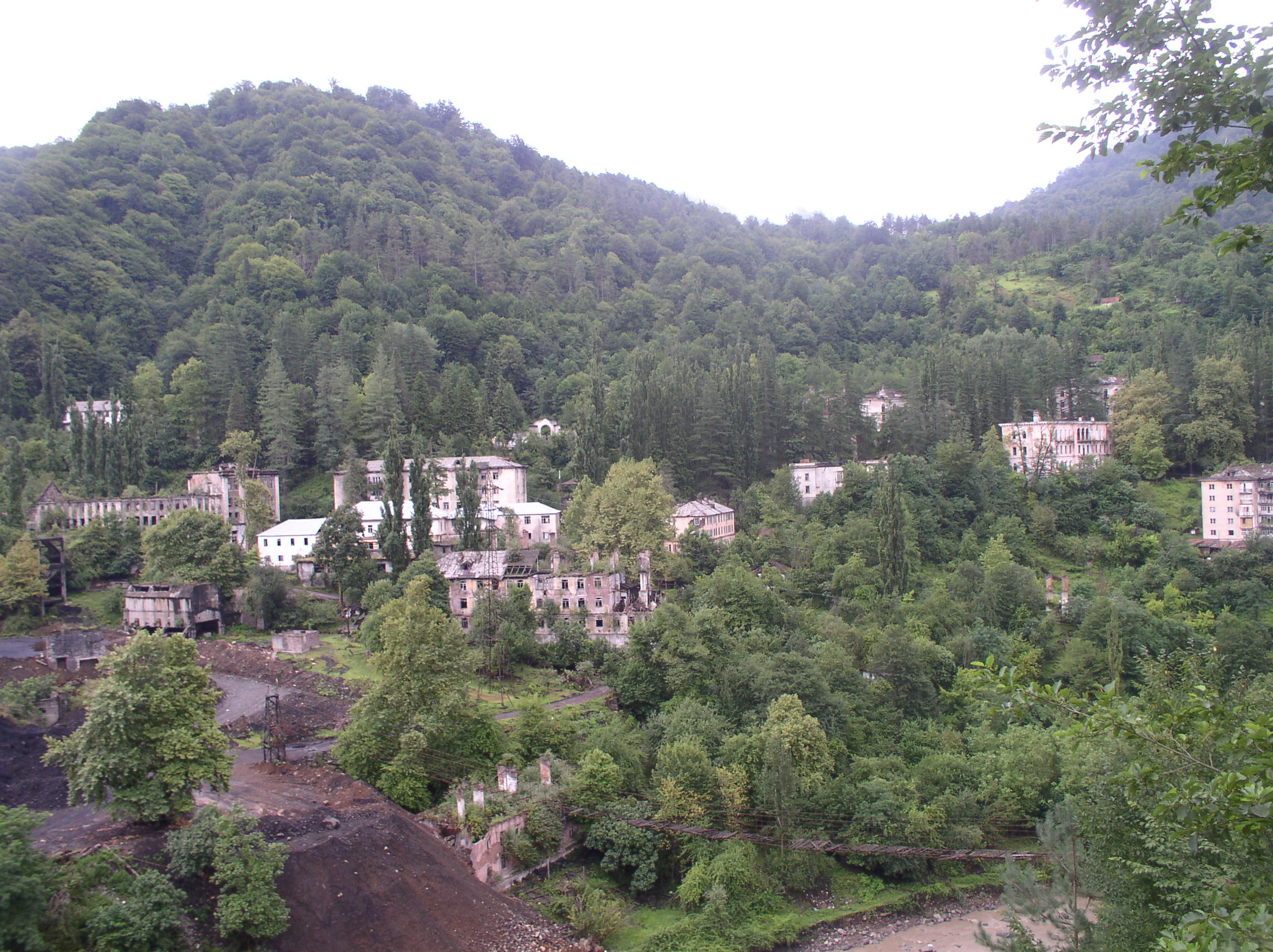 View of the Akarmara microrayon of the town of Tquarchal in Abkhazia